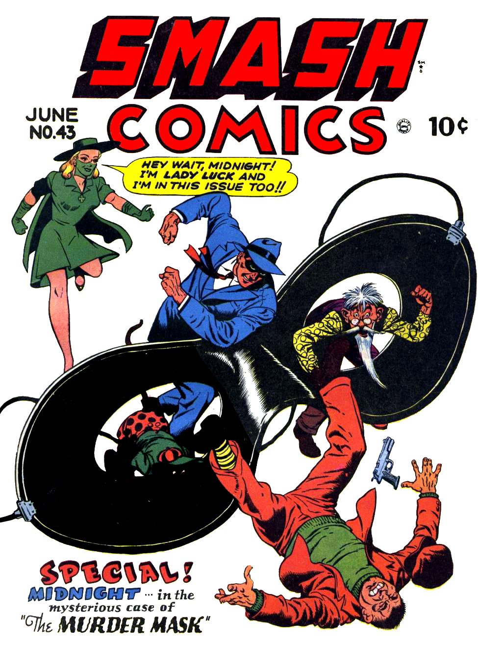 Midnight and Lady Luck on the cover of Smash Comics, volume 1, number 43, June 1943, as published by Quality Comics. This image has lapsed into the public domain, due to Quality failing to renew the copyright.